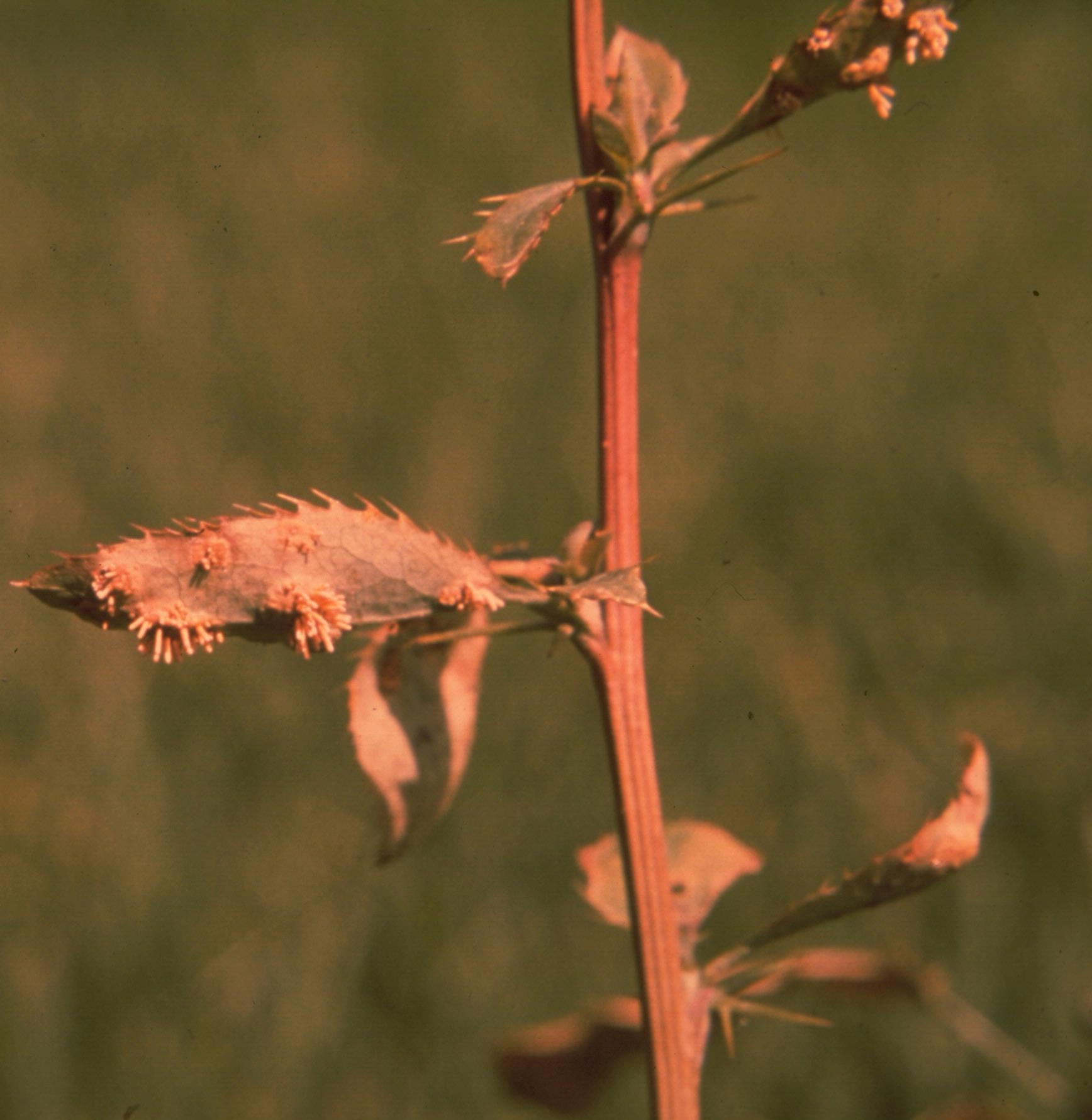 Aecia of Wheat Rust (Puccinia graminis f.sp. tritici) on Barberry (Berberis vulgaris)